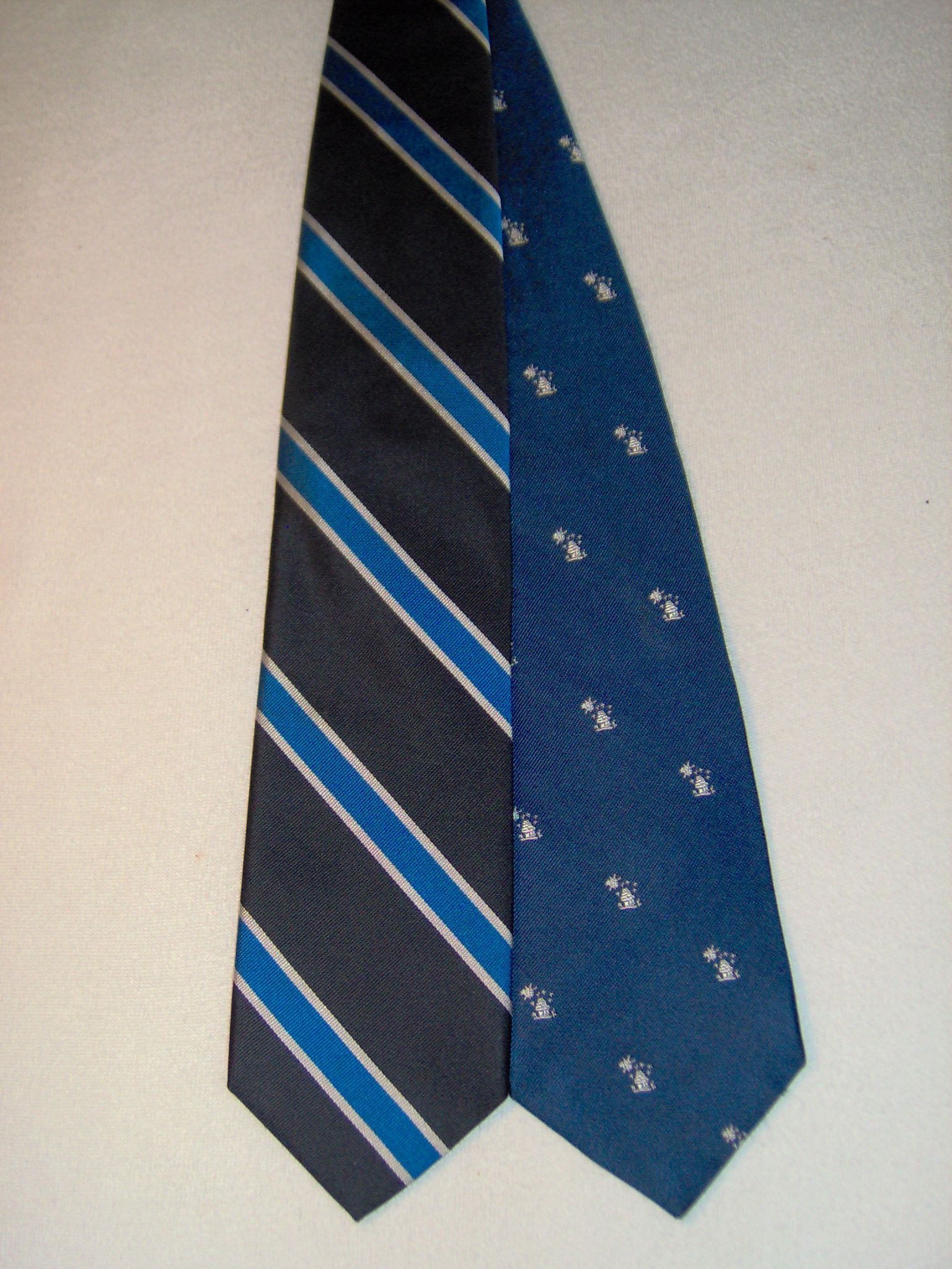 The two variants of the school tie for Phillips Academy. i took this, 4 December 2005, donate to public domain.